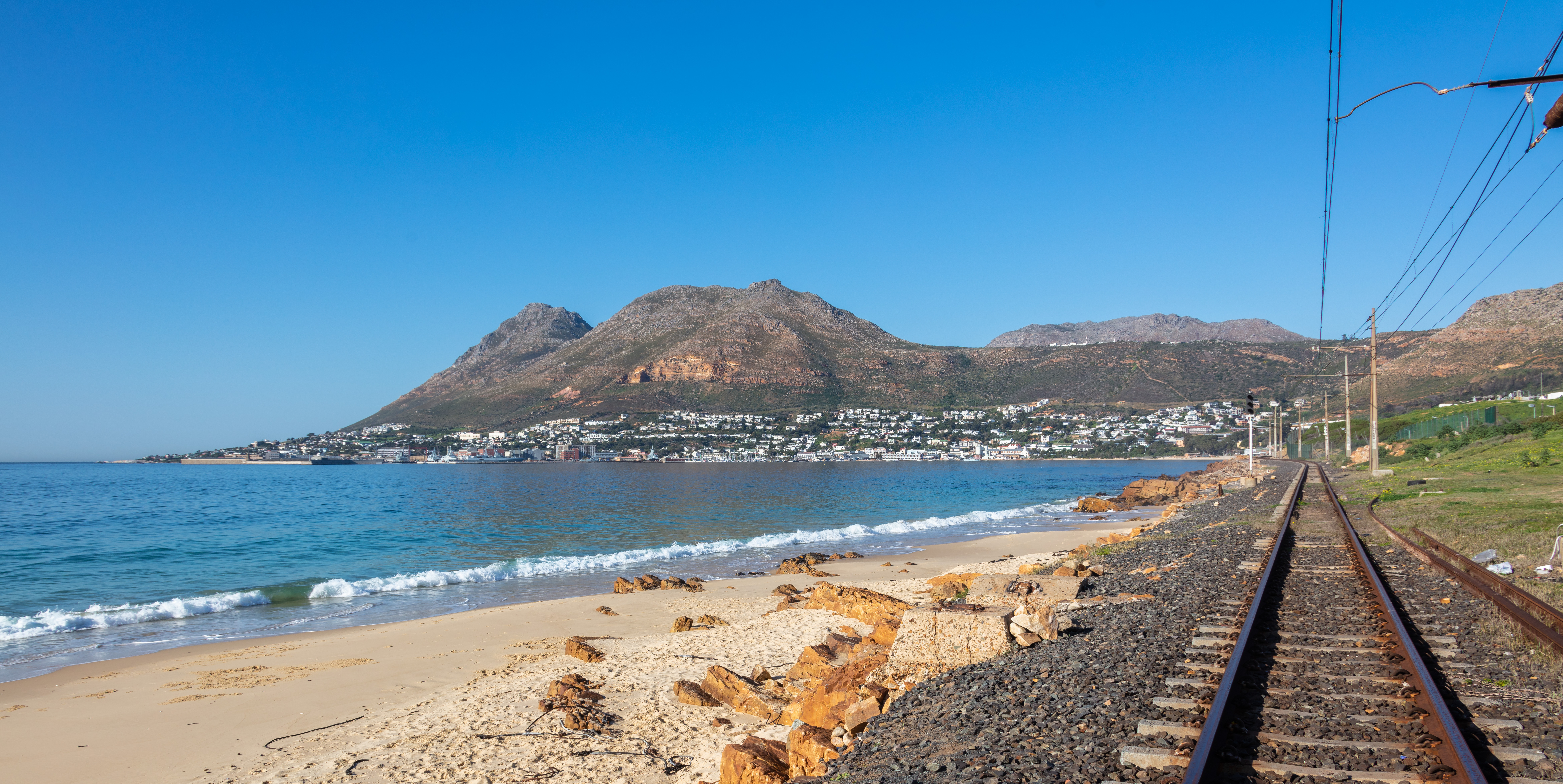 Kalk Bay, South Africa